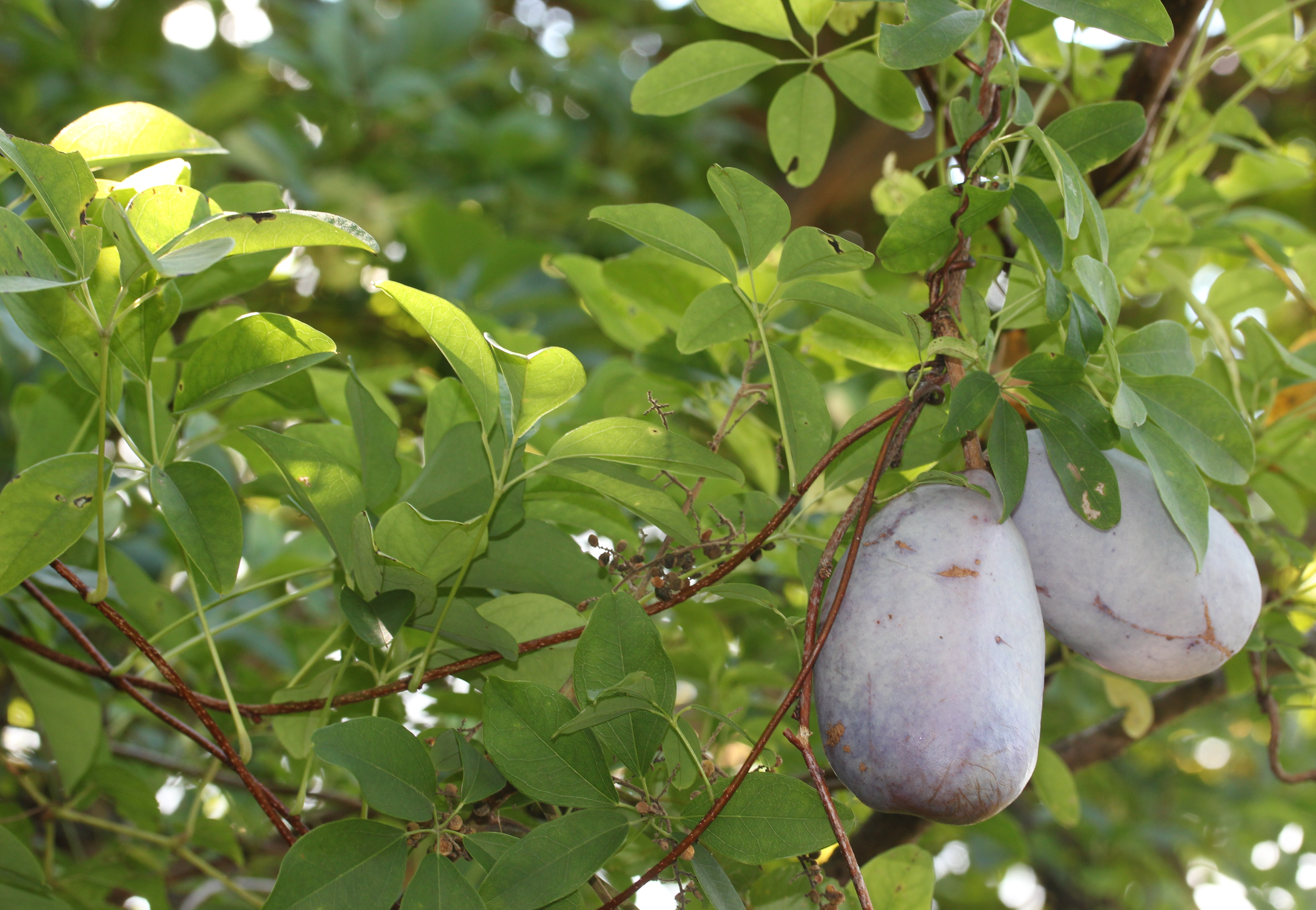 Fruits and leaves of Chocolate Vine (Akebia quinata (Houtt.) Decne. ) in Mount Ibuki, Shiga prefecture, Japan.